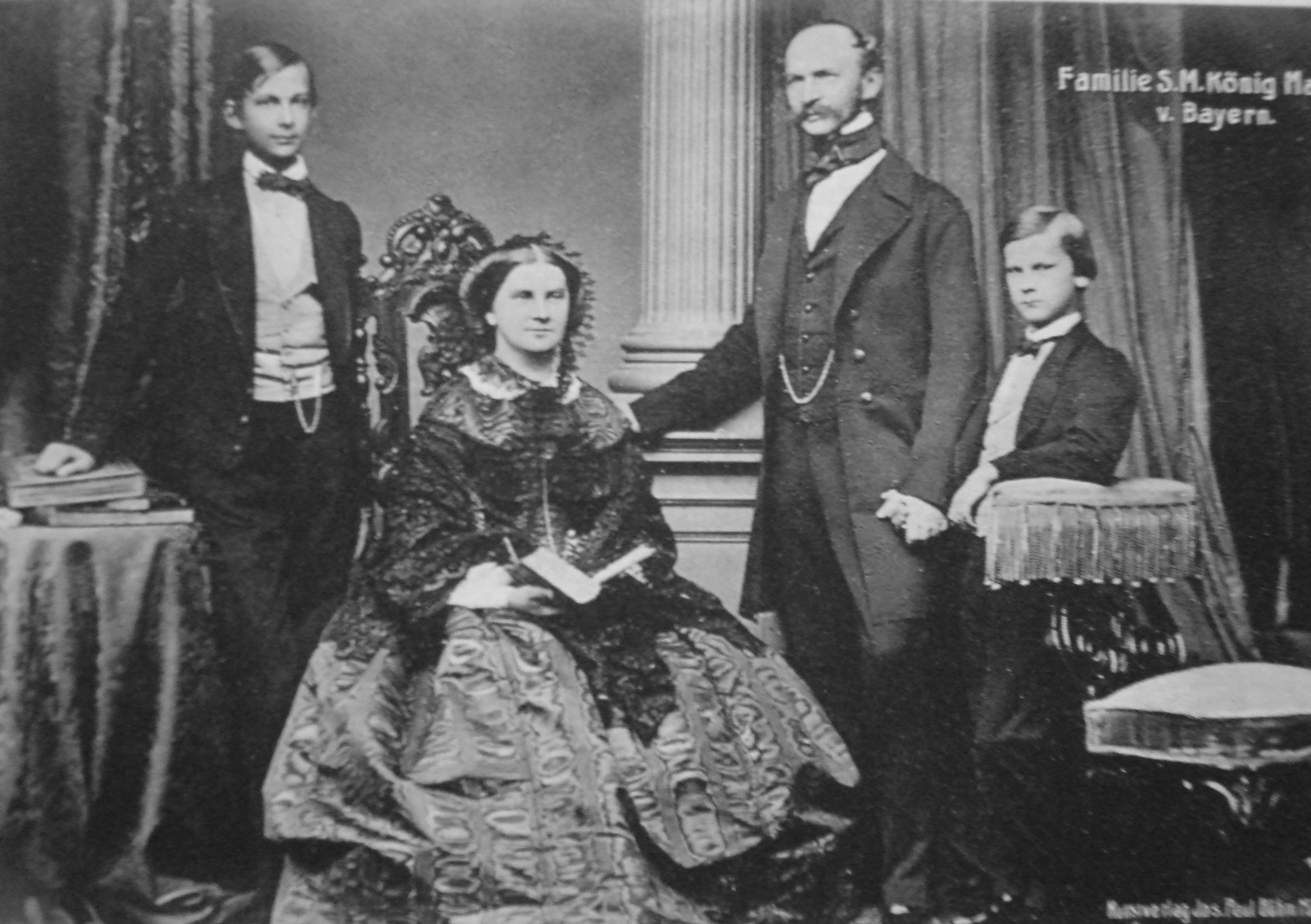 Maximilian II of Bavaria with his wife Marie of Prussia and their two sons: Ludwig II and Otto.